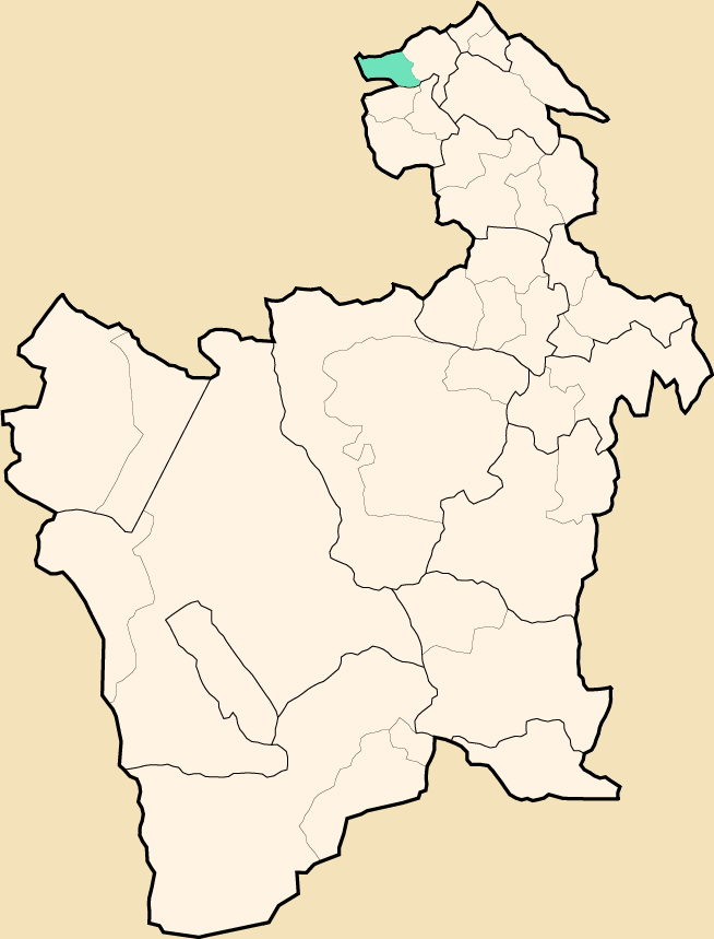 Caripuyo Municipality, Potosí Department